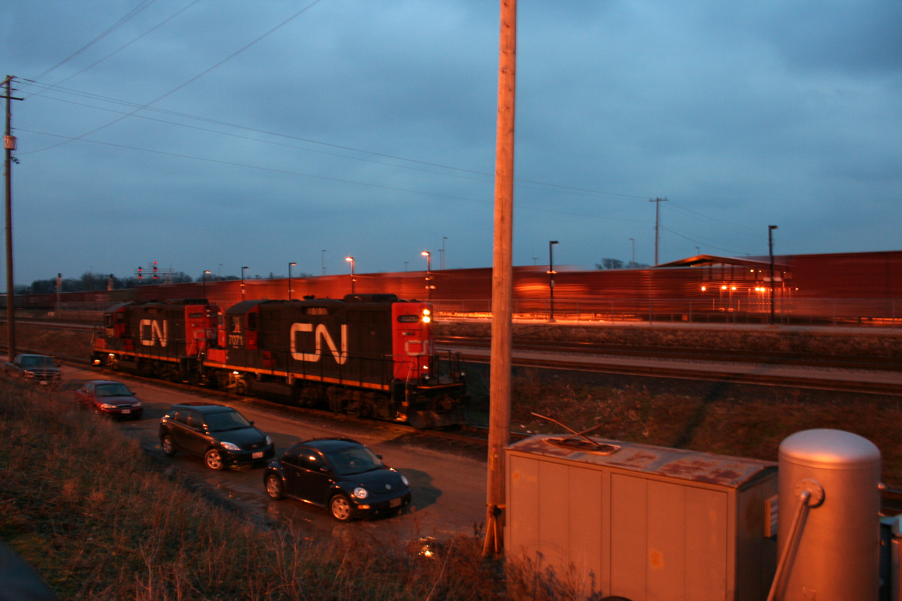 CN Rail cars at Aldershot station in Burlington, Ontario